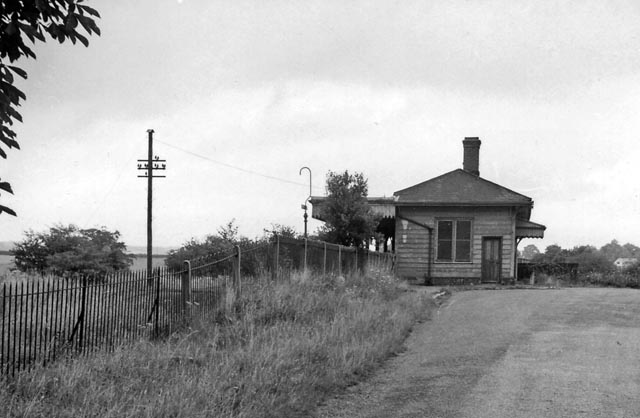 Brasted Station (remains) View eastward, towards Dunton Green; ex-SE&C Dunton Green - Westerham branch. The Westerham branch remained quaintly steam-worked off the electrified SR suburban lines, until closed on 30/10/61. Later it was to be swallowed up under the mighty M25.